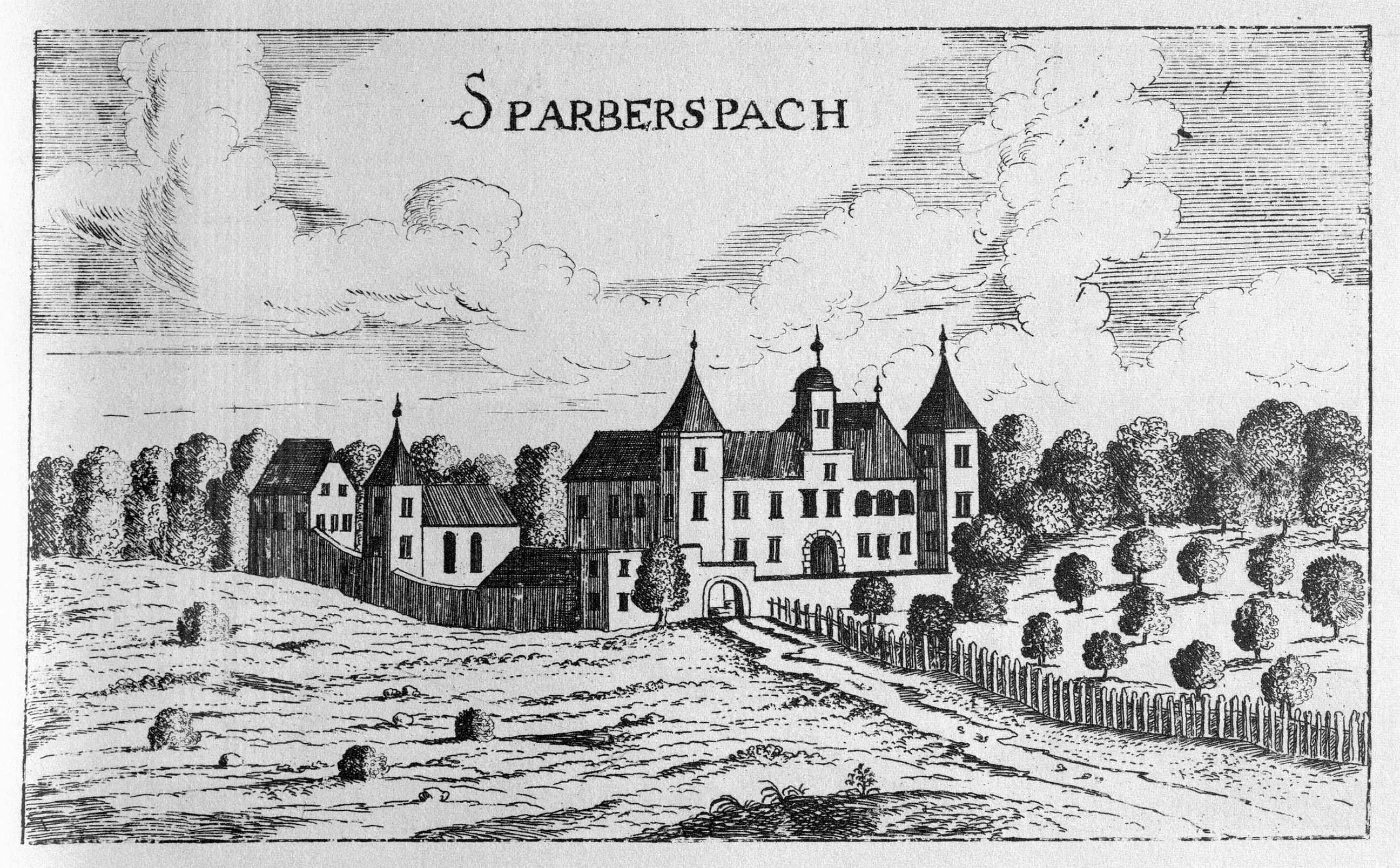 Hallerschloss, Graz, Austria, Engravings by G. M. Vischer